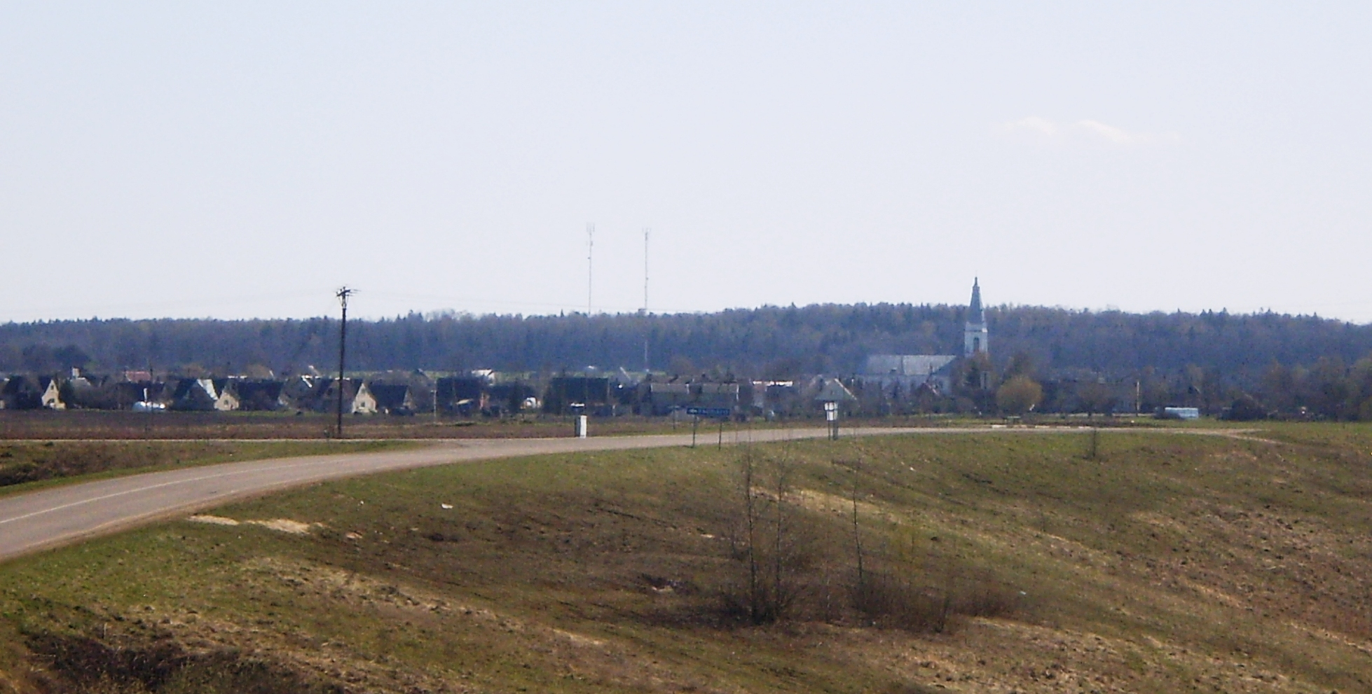 Šėta, Kėdainiai dst., Lithuania